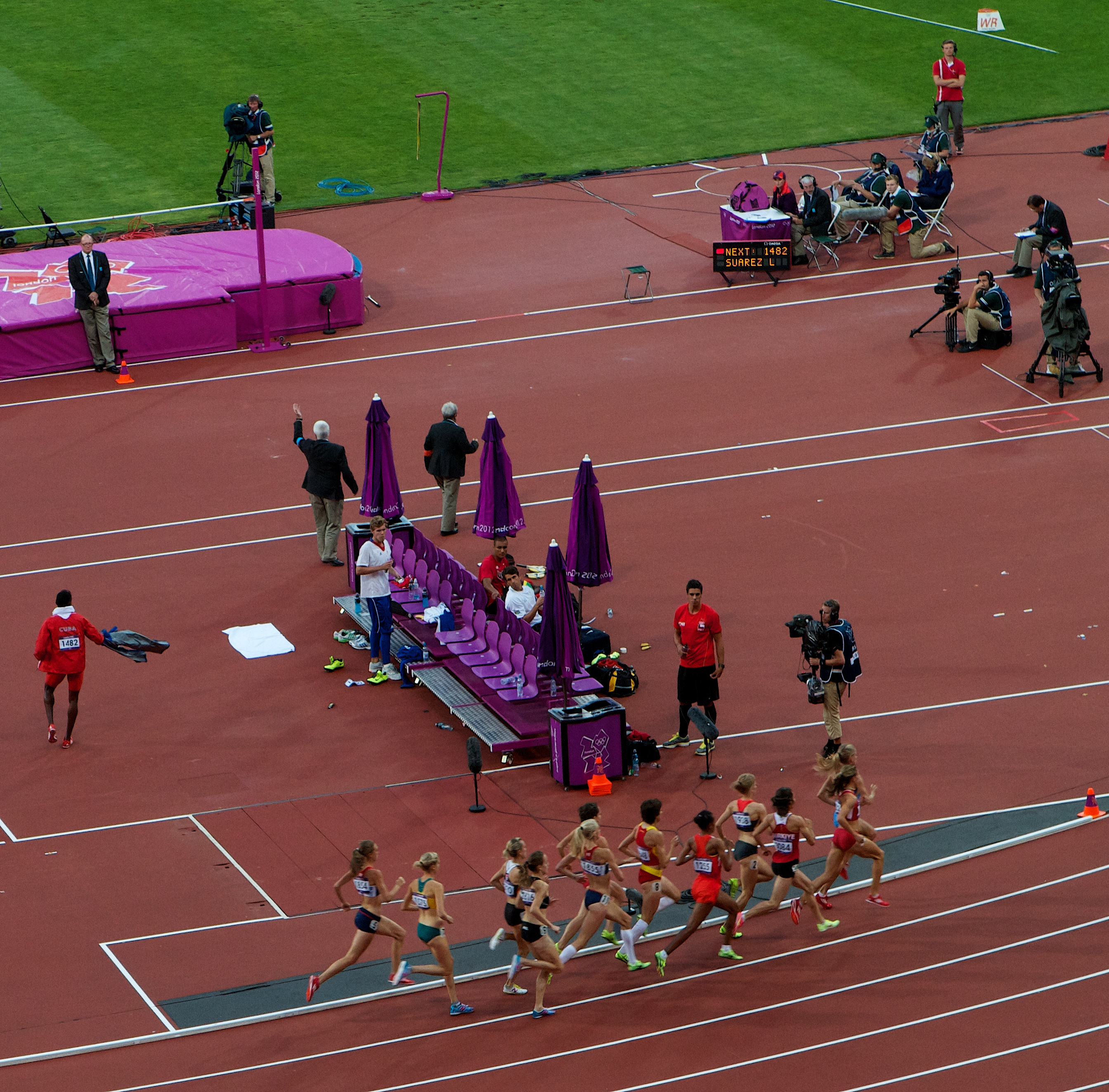 Athletics 2012. Women's 1500m semifinal heat 1, Corinna Harrer (1938 Germany), Asli Cakir Alptekin (3084 Turkey)